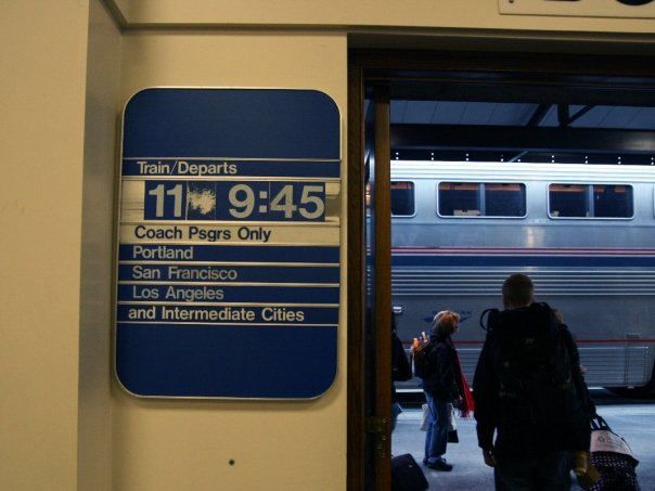 A notice board for Coast Starlight 粵語: 美國海岸星光號火車水牌